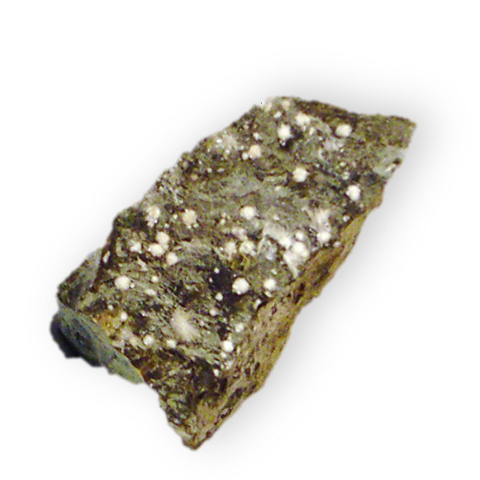 These mineral images are free to use how you wish.